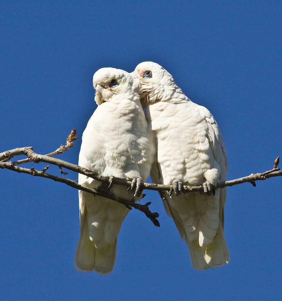 Two Little Corellas (also known as the Bare-eyed Cockatoos) at the upper reaches of Toongabbie Creek, near Sophia Doyle reserve, Baulkham Hills, suburban Sydney, Australia.